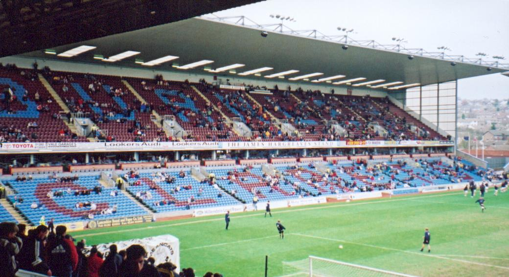 The James Hargreaves Stand at Turf Moor, home of Burnley F.C.